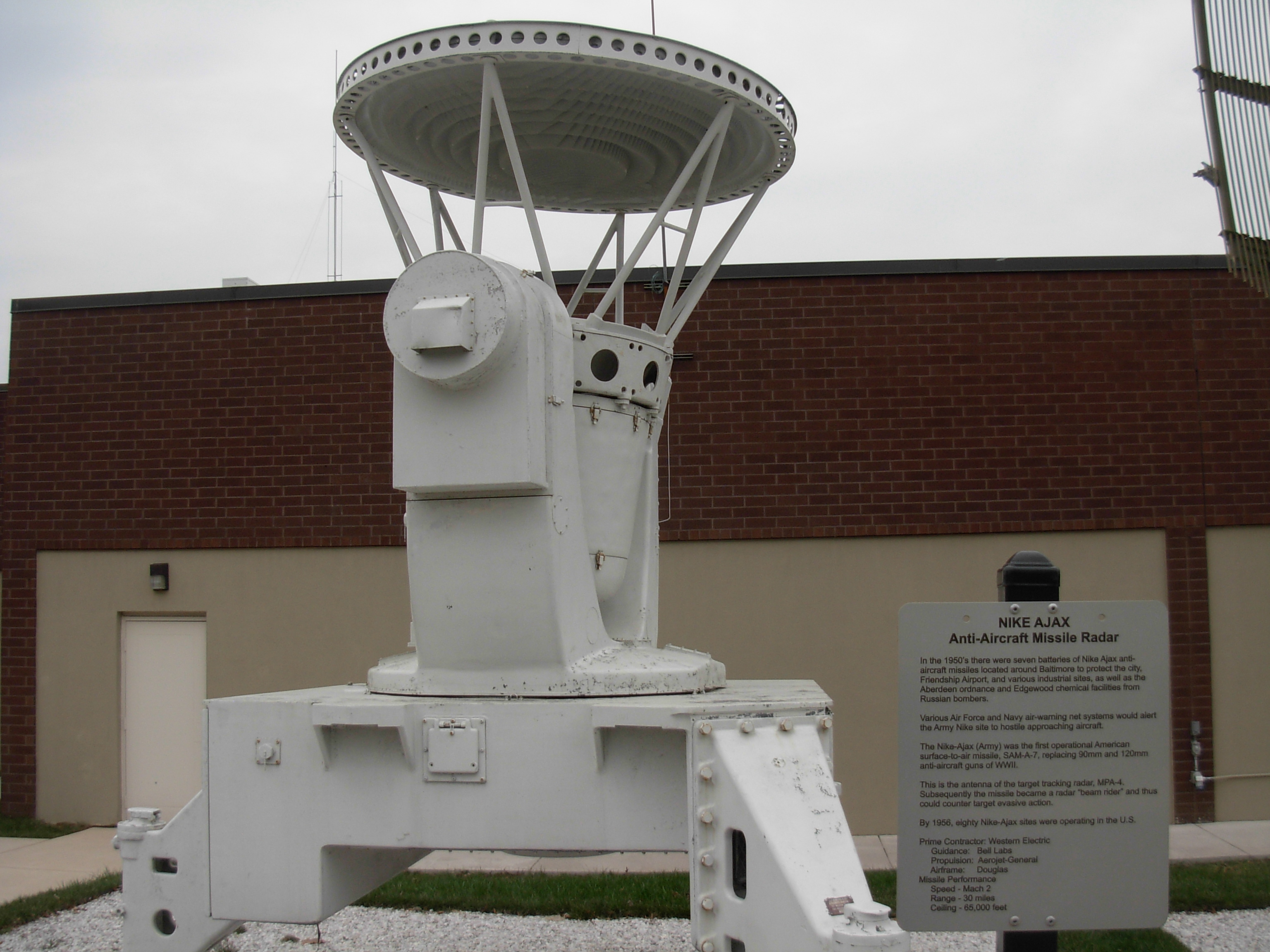 The antenna of the MPA-4 target tracking radar used with the US Air Force MIM-3 Nike Ajax anti-aircraft missile, in service from 1954 through the 1960s. It is a Fresnel lens antenna, composed of a lattice of parallel strips of metal. Microwaves from a feed horn below pass through the lens, which focuses them into a beam which tracks the target aircraft. For more information see IFC-Tracking Radars page, Ed Thelen's Nike Missile website DSCN1608